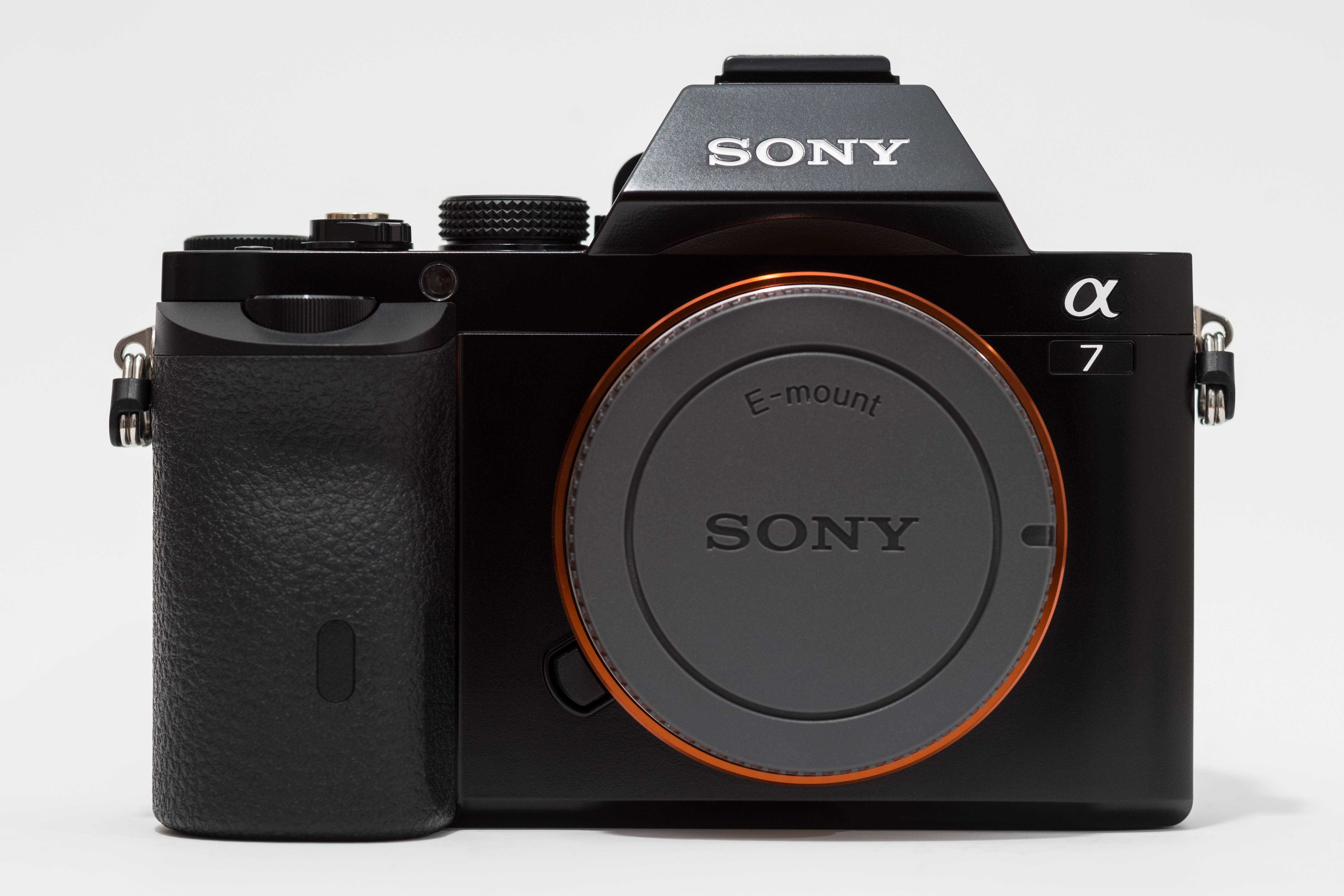 Sony Alpha ILCE-7 (A7) full-frame camera (mirrorless interchangeable-lens camera).